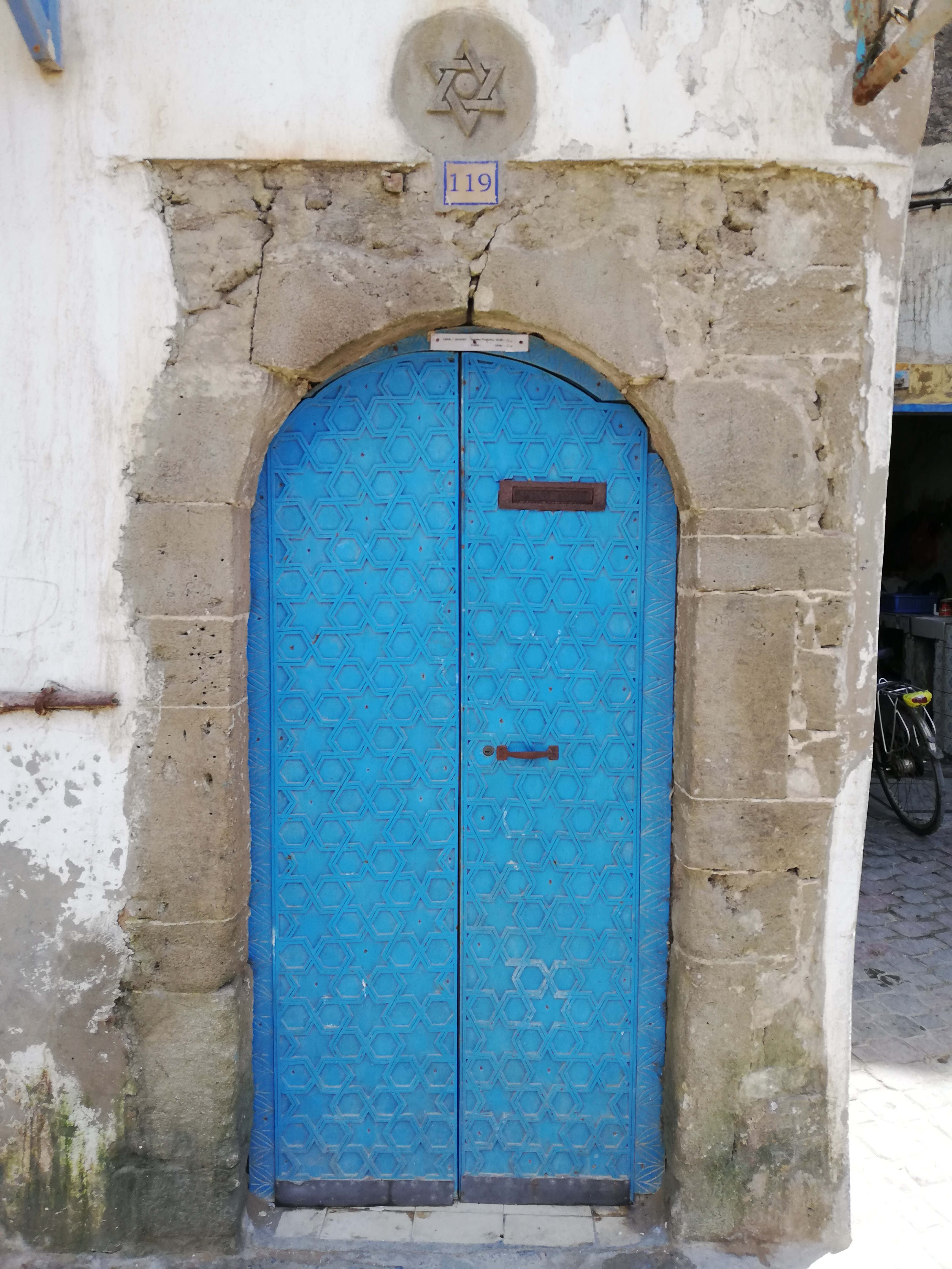 synagogue Simon Attias, Essaouira. Based on coordinates given by Wikidata / Commons App.